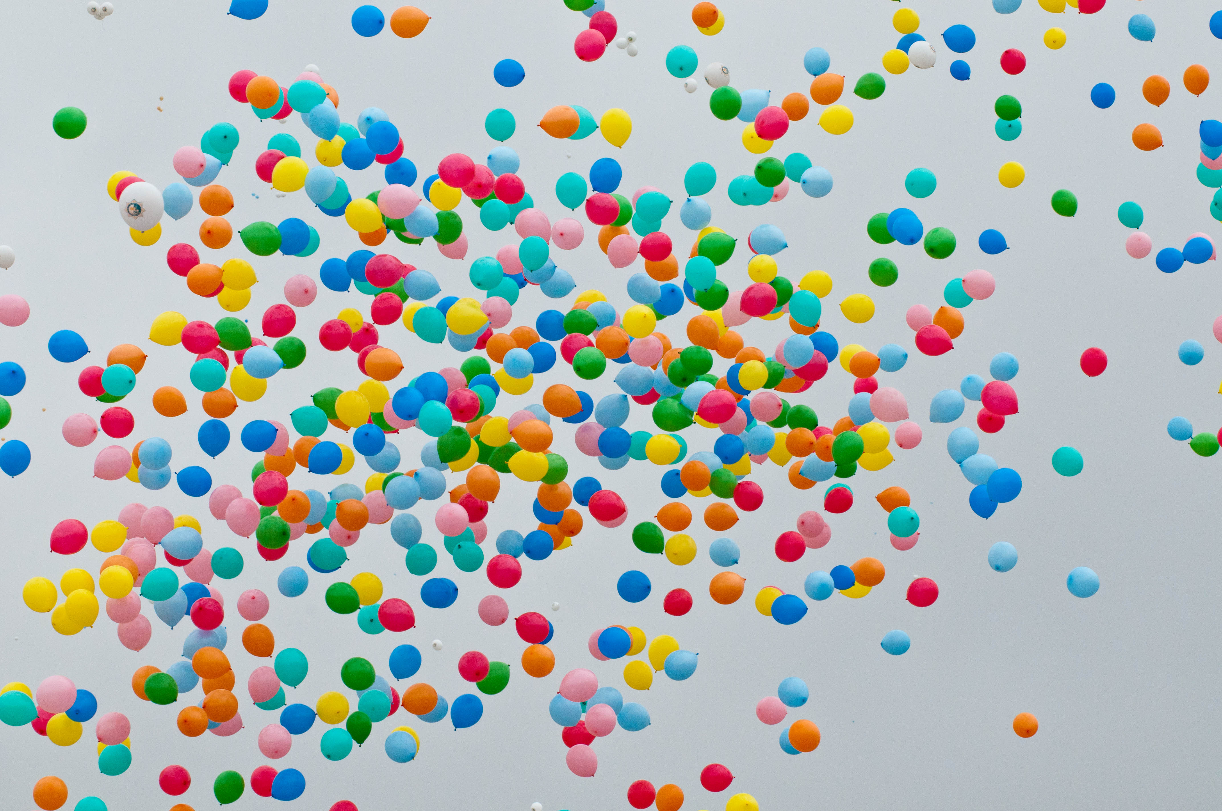 Celebrating the 20th year of independence in Turkmenistan